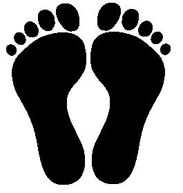 Footprints of feet standing parallel